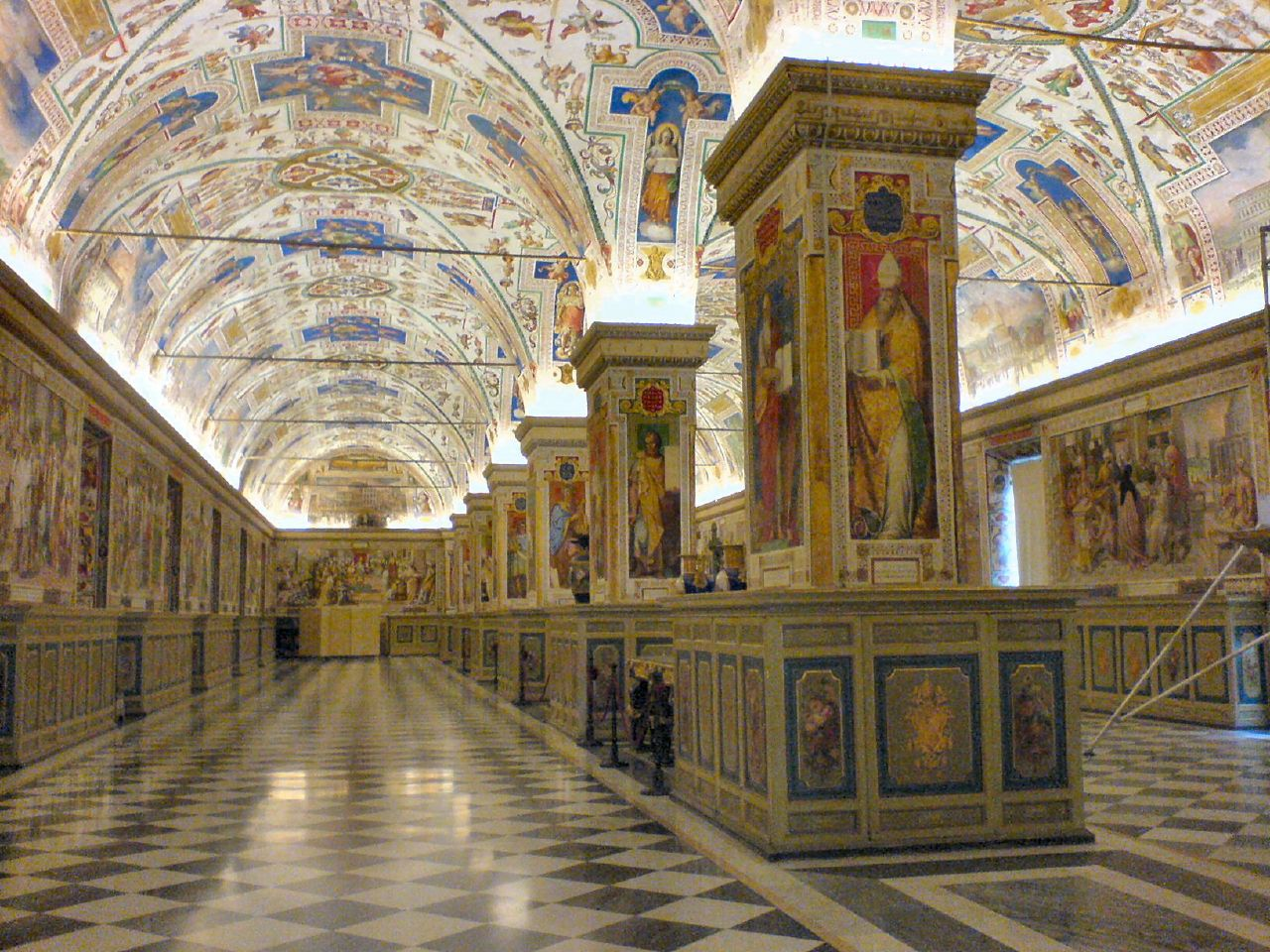 The Vatican Museum